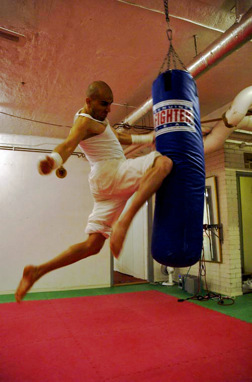 Umar Khan performing a flying knee.